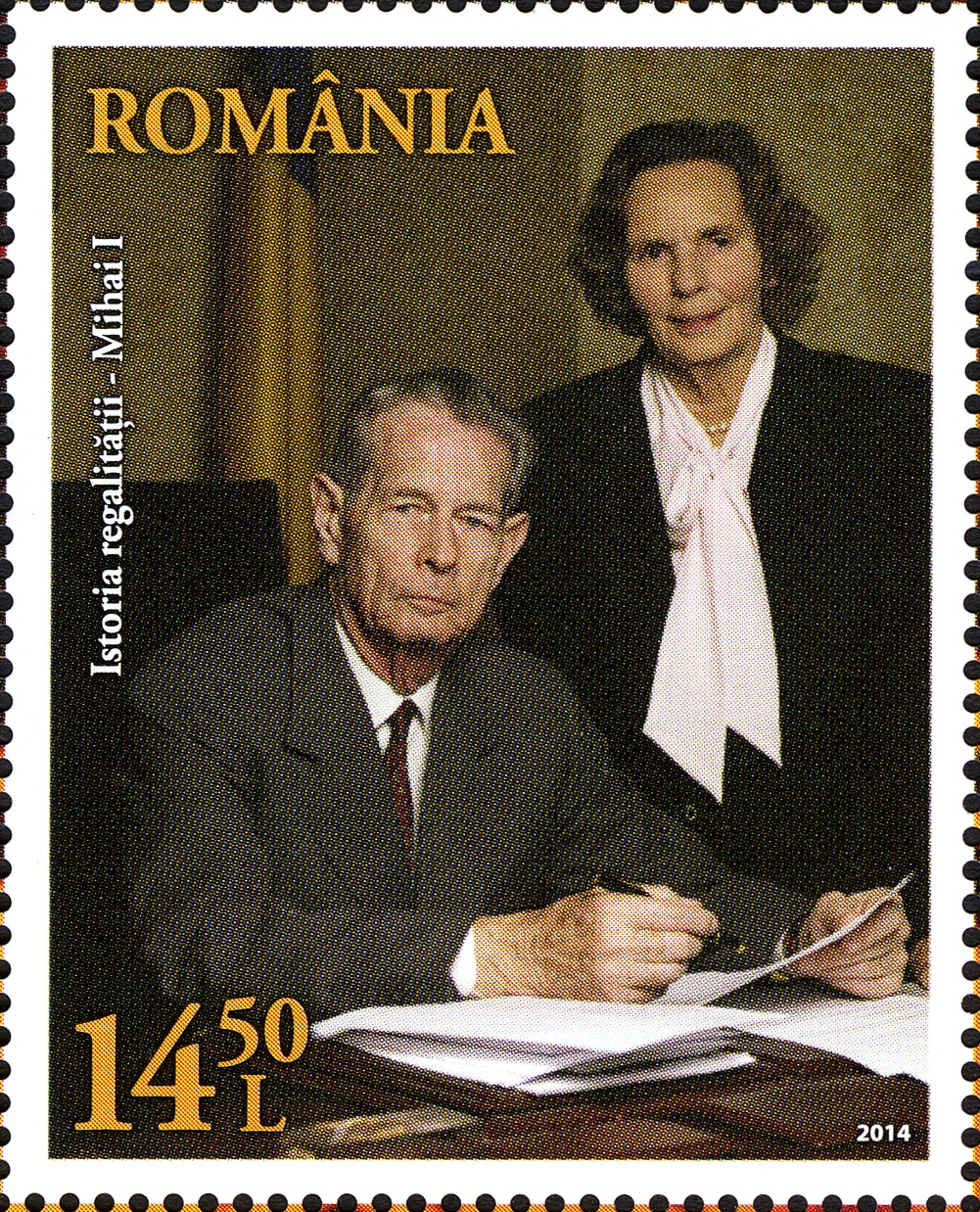 The History of Royalty - Michael I